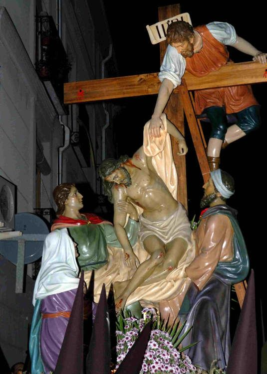 El Descendimiento.